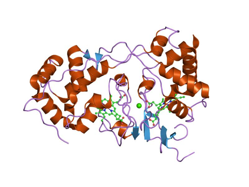 Cartoon representation of the molecular structure of protein registered with 1eb7 code.